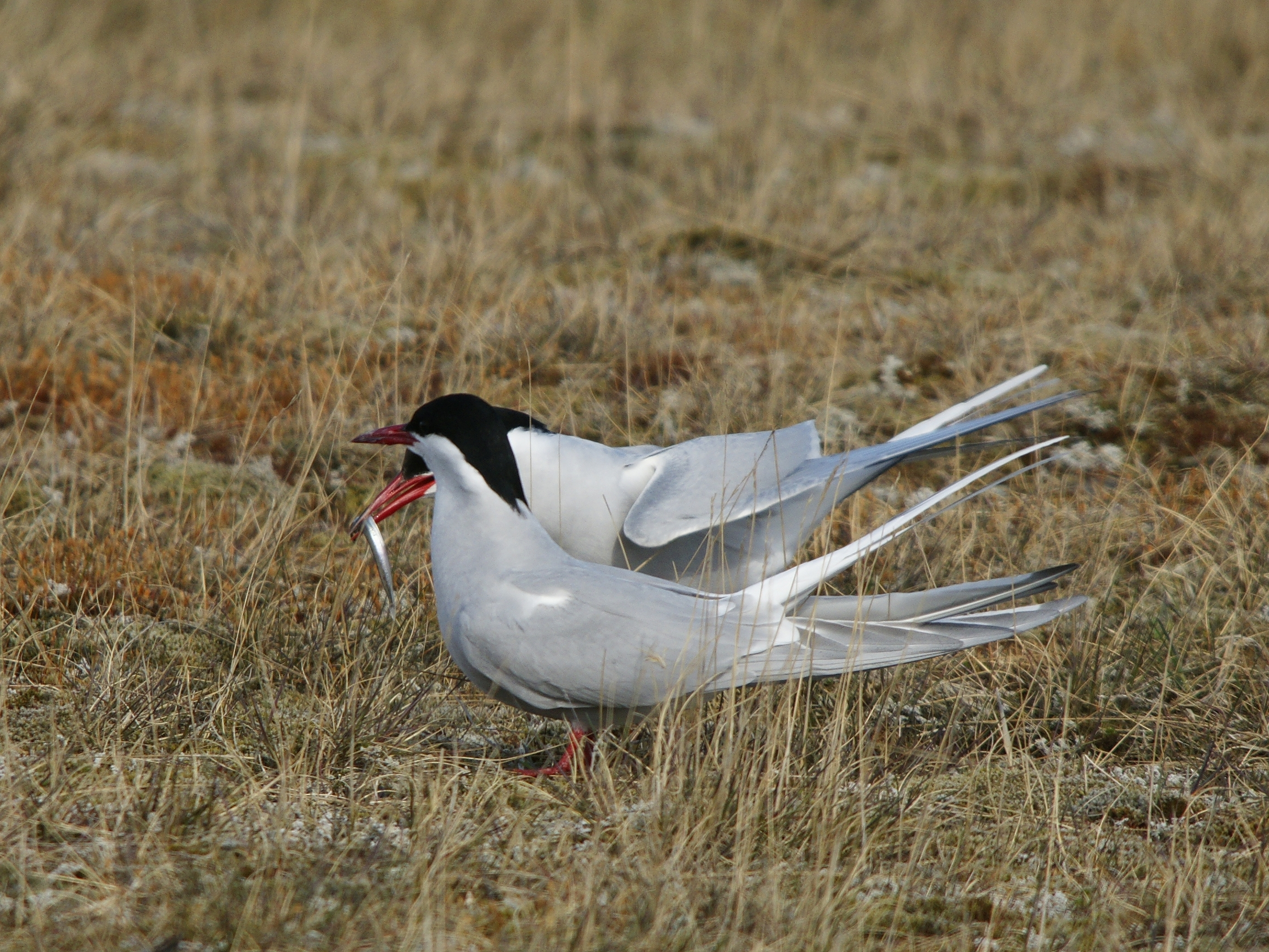 Arctic Tern pair at Jökulsárlón glacial lagoon, Iceland